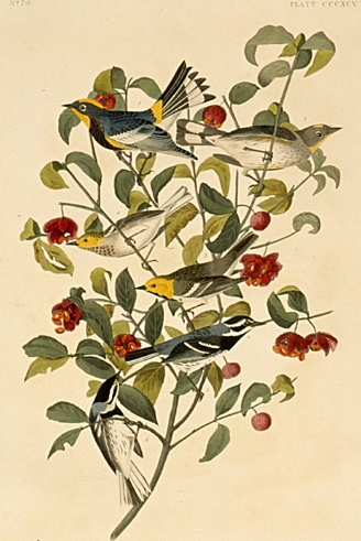 Plate 395 of Birds of America by John James Audubon depicting several species of Setophaga. I. Audubon's Warbler (Setophaga auduboni) - . Hermit Warbler (Setophaga occidentalis) - . Black-throated Gray Warbler (Setophaga nigrescens).